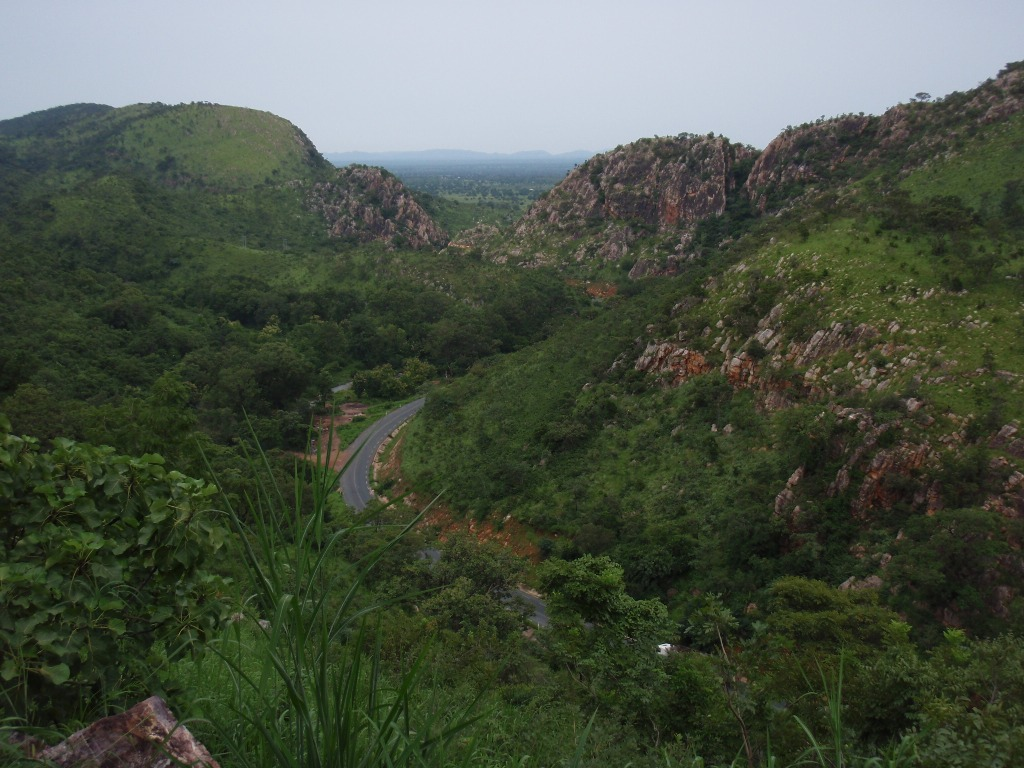 Atakora mountains, North Benin, close to Tanguieta, Pendjari Nationalpark